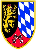 coat of arms of the Bundeswehr (Armed Forces of the Federal Republic of Germany). → Remarks on naming and categorization scheme